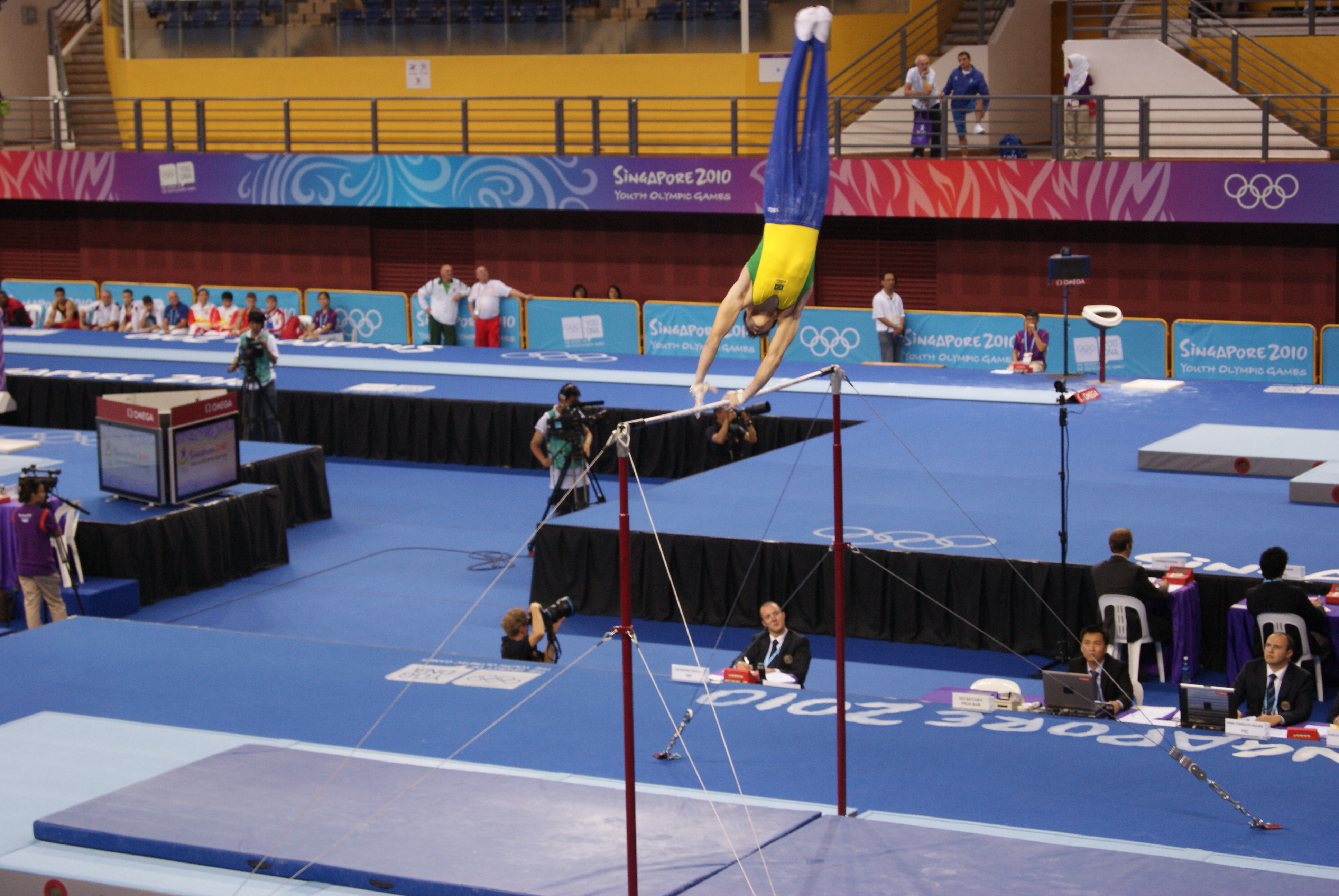 Brazilian gymnast Arthur Mariano performing on the horizontal bar during Men's Qualification – Subdivision 1 of the artistic gymnastics competition at the 2010 Summer Youth Olympics at Bishan Sports Hall, Singapore.